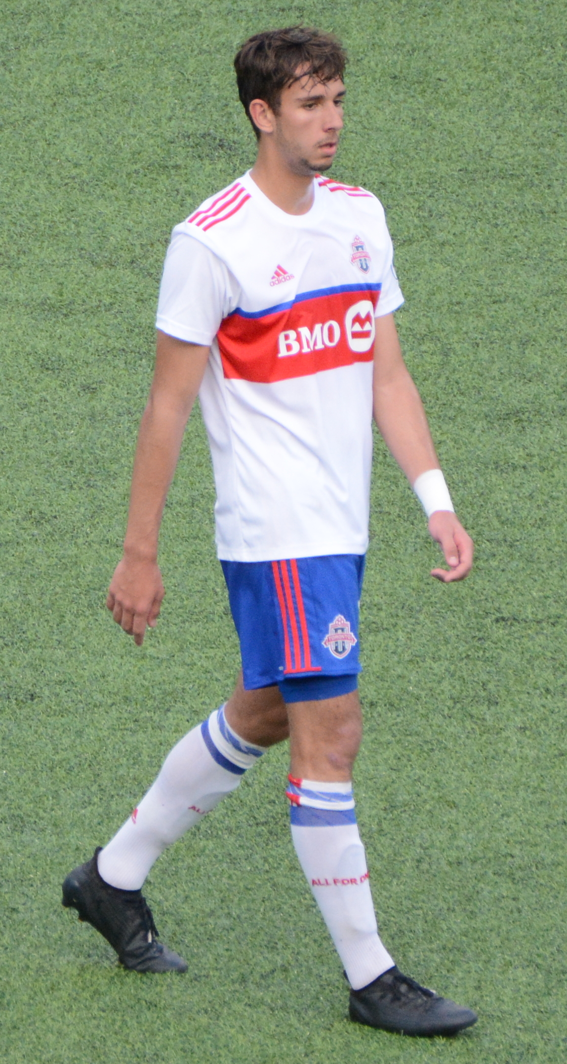 Robert Boskovic Taken during a match between FC Cincinnati and Toronto FC II at Nippert Stadium in Cincinnati, USA on May 27, 2017.